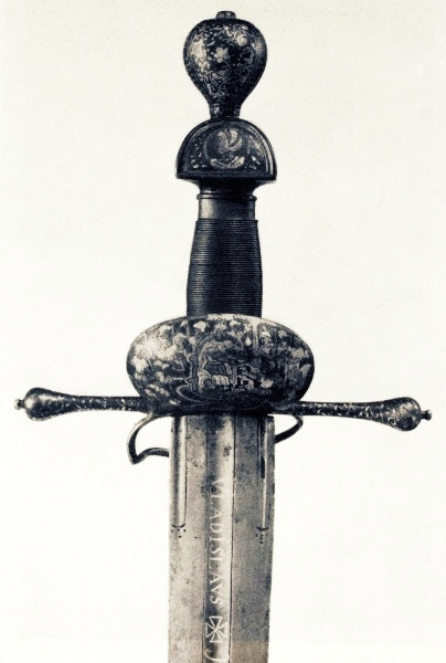 Photograph